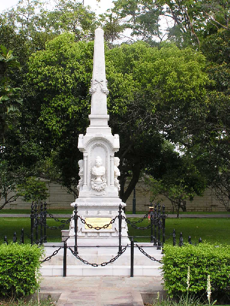 Rajanusorn Memorial within Bang Pa-In Palace, Ayutthaya, Thailand